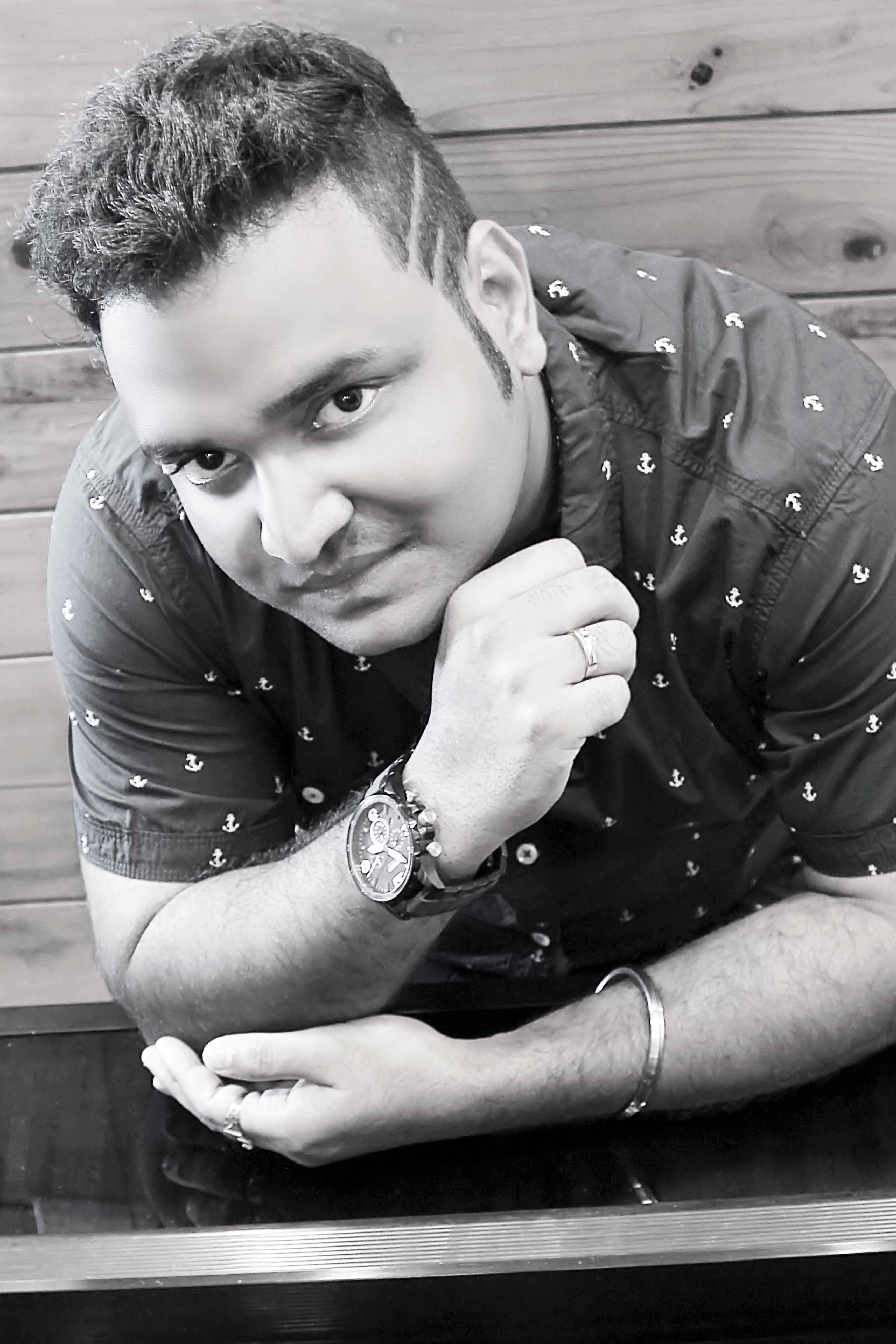 Sanjib Sarkar - Indian Music Director - From kolkata